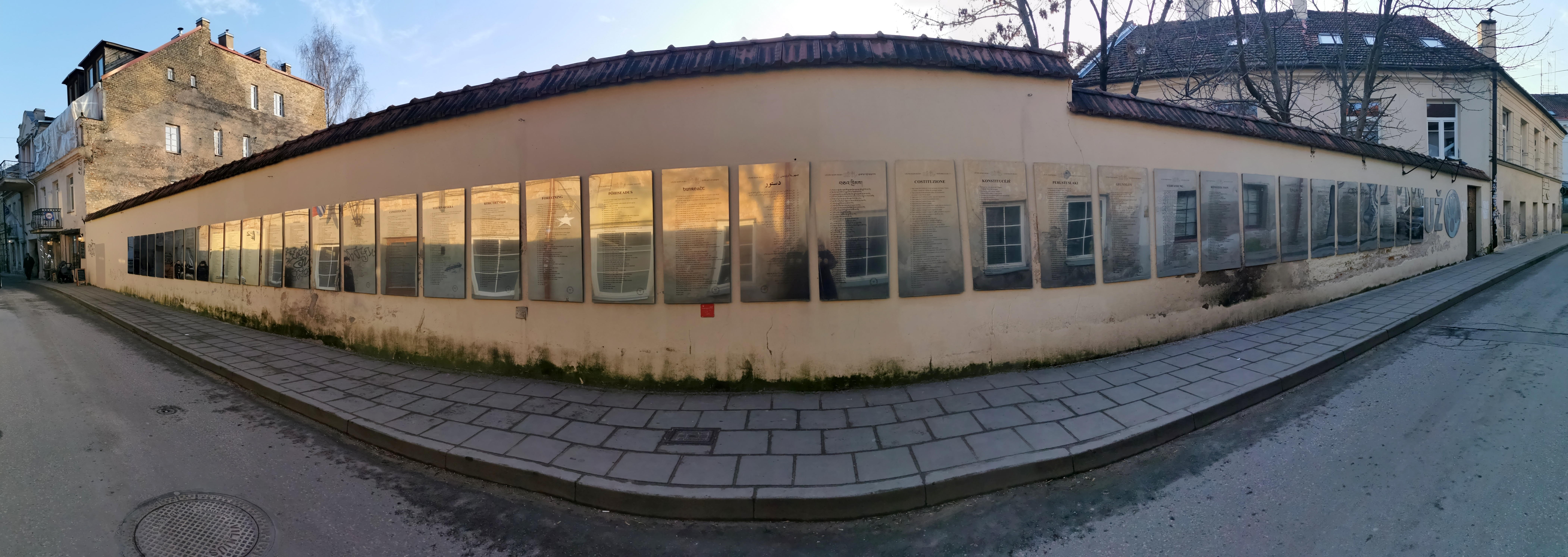 Užupis Constitution and its Translations into the World Languages ​​Paupio St., Vilnius